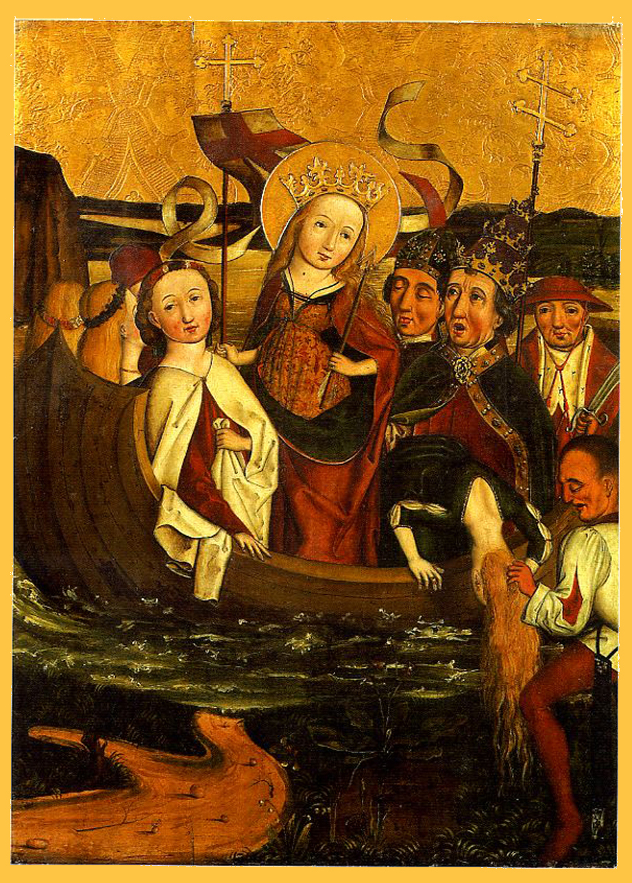 Saint Ursula (german school, XVI-th cent.)